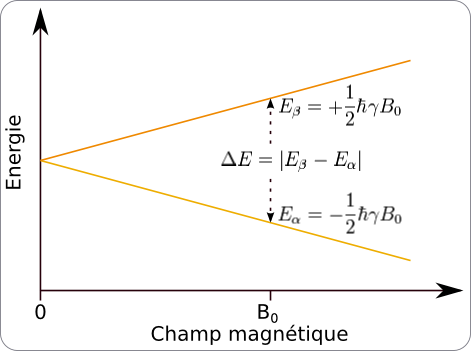 Energy Level